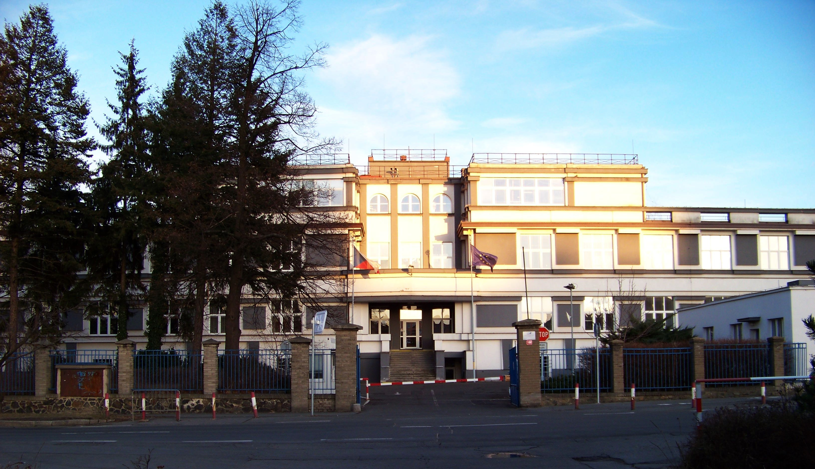 Prague-Letňany, the Czech Republic. Beranových street, Aerospace Research and Test Establishment.